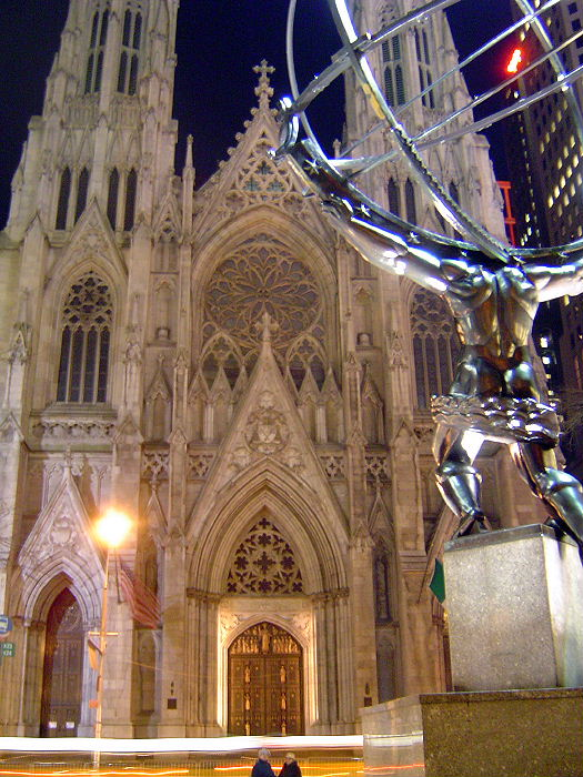 View of St. Patrick's Cathedral, New York with Lee Lawrie's colossal bronze Atlas statue in foreground, taken